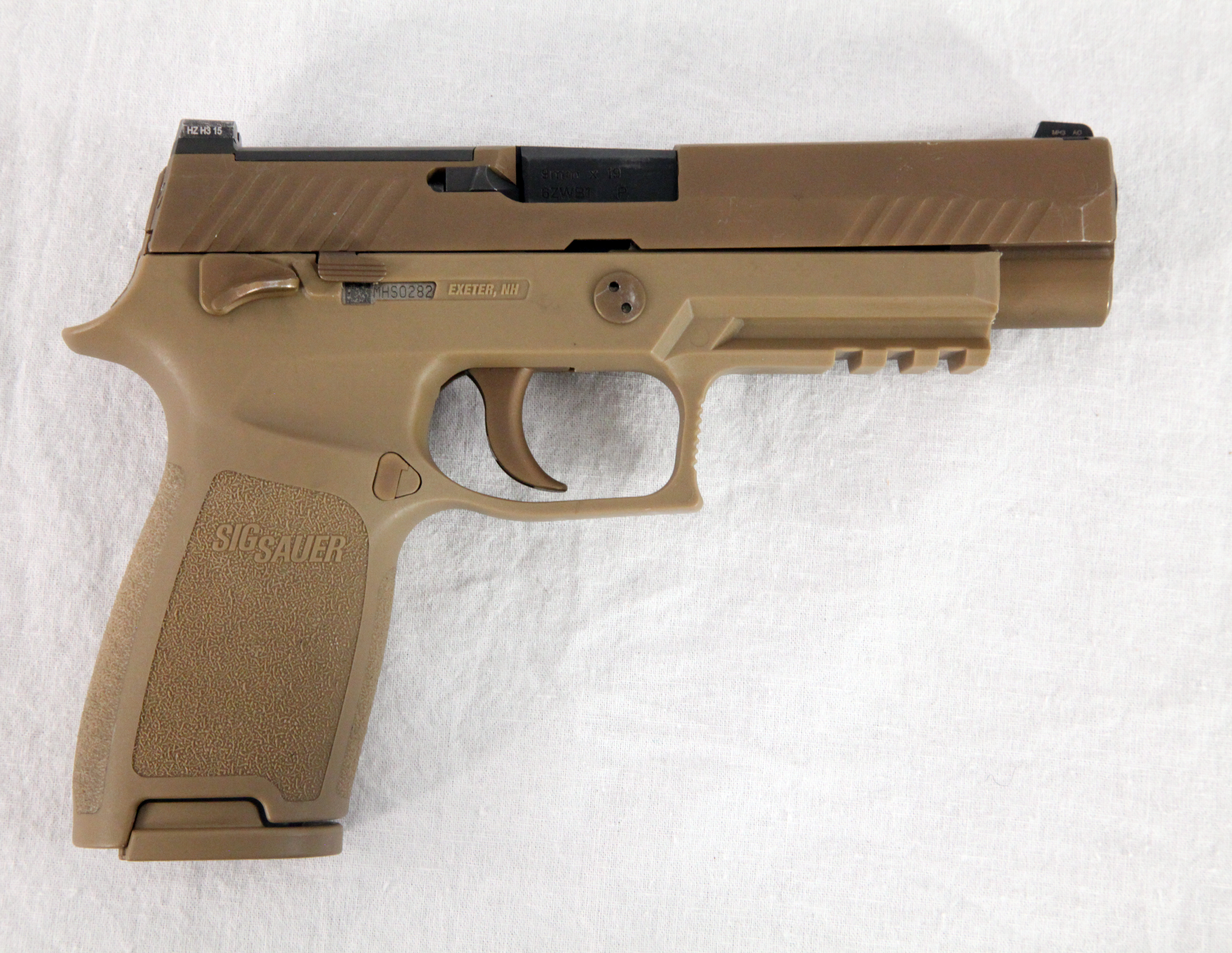 Photograph of the XM17/XM18 Modular Handgun